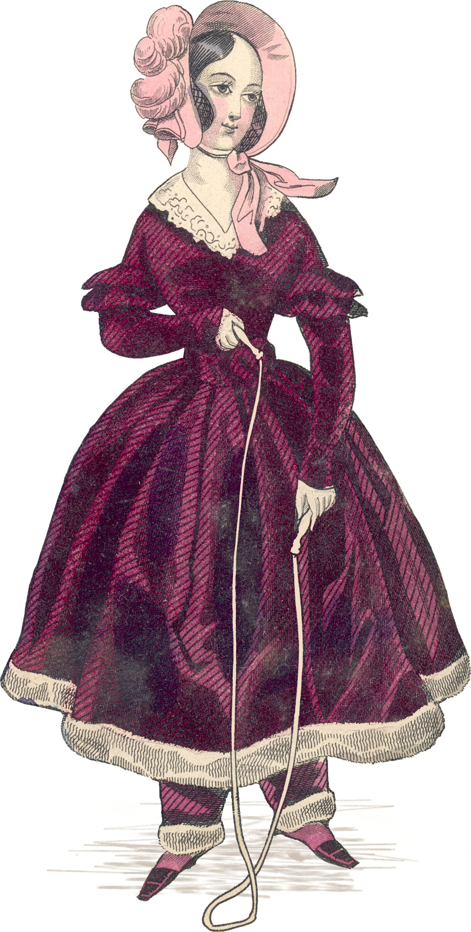 Crimson velvet frock and pantaloons, trimmed with sable . Bonnet of pink gros de Tours, ornamented with a bouquet of short Ostrich feathers, and ribbons to correspond.